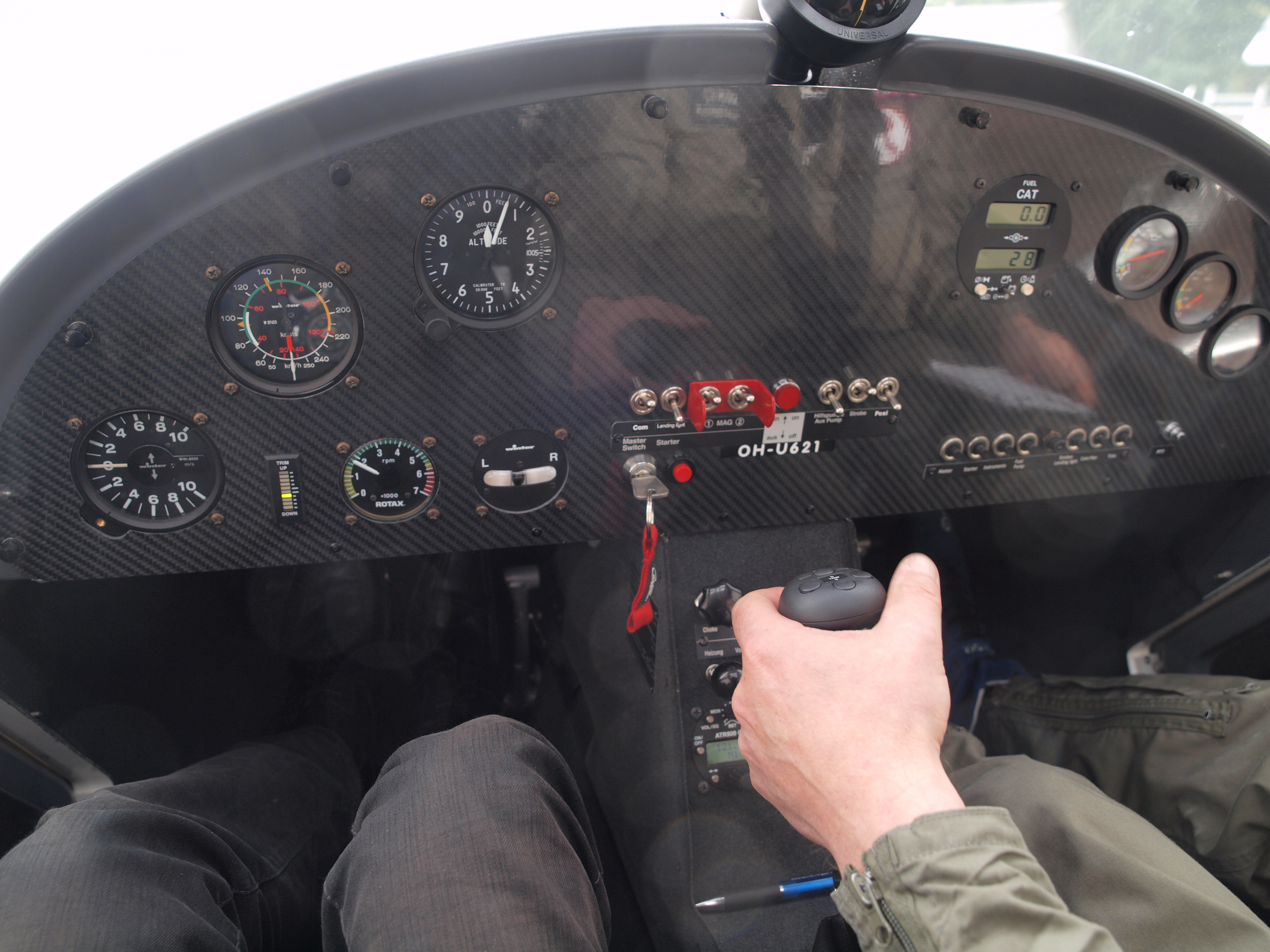 A view inside the cockpit of an Ikarus C42 ultralight aeroplane (registration sign OH-U621), showing the instrument panel. The instrument panel of an ultralight aeroplane is very much simpler than the overwhelmingly astronomical instrument panel of a commercial airliner. Heck, given about half a year of practice, even I could perhaps learn to fly this aeroplane.